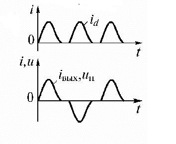 DerevenetsLast